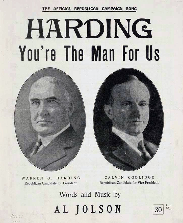 Sheet music cover for Warren Harding's 1920 presidential campaign song